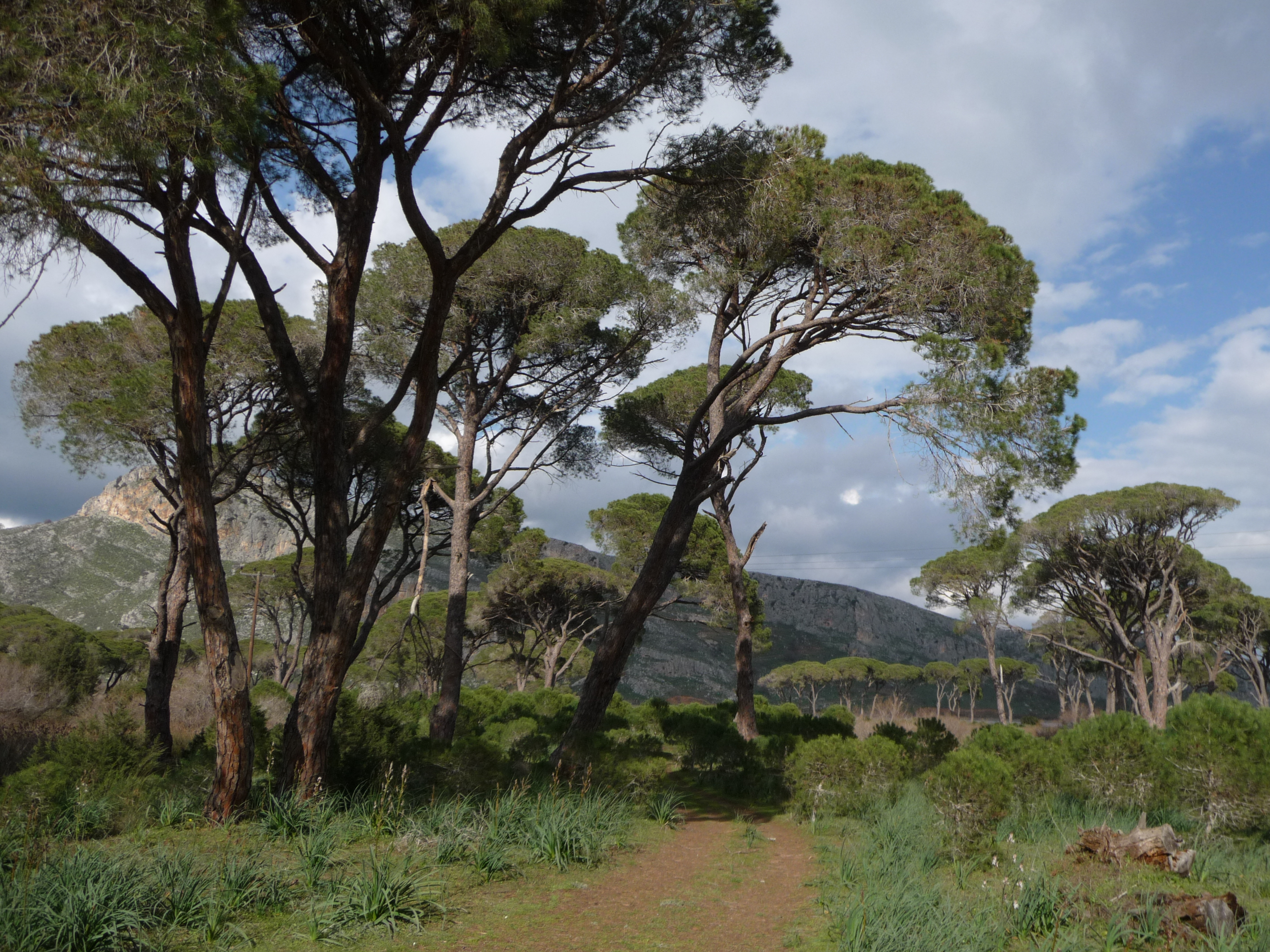 This is a photography of Natura 2000 protected area with ID GR2320001